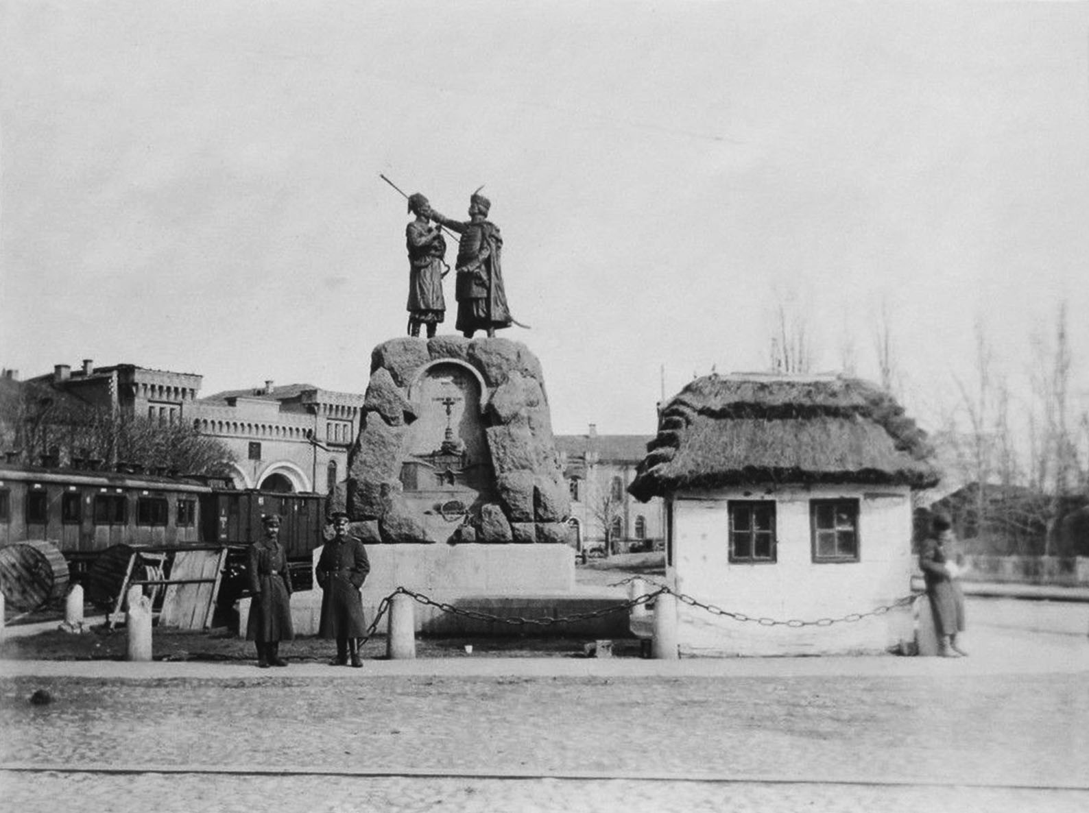 The Iskra and Kochubey monument in Kiev.